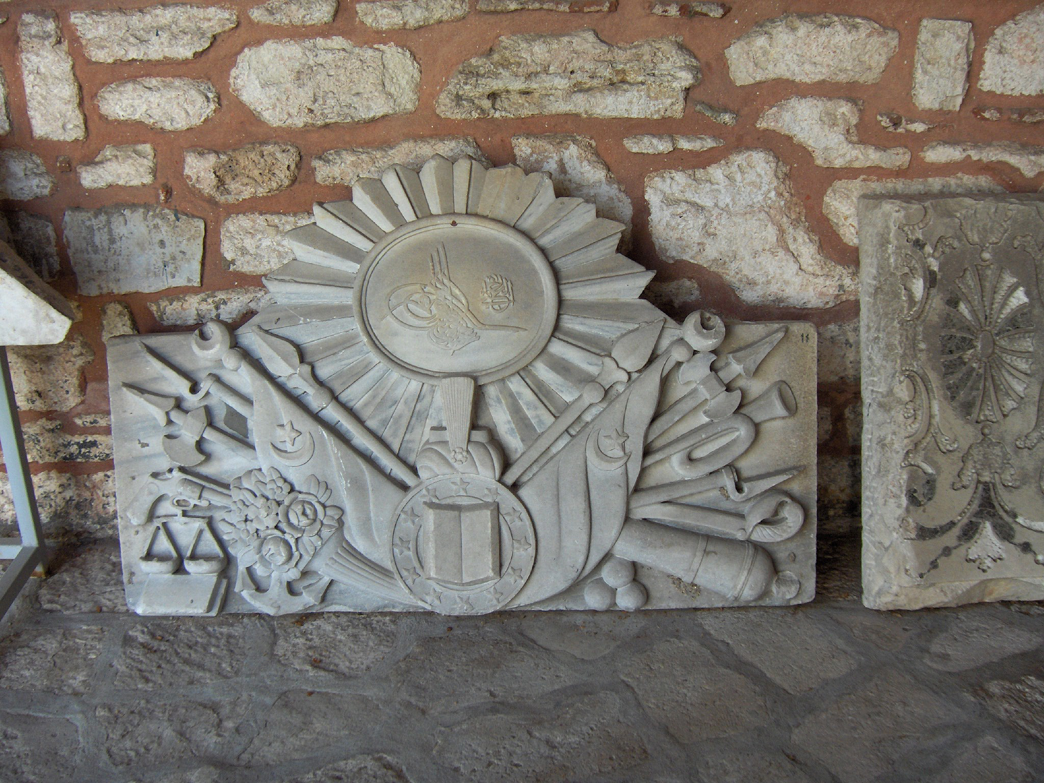 Coat of Arms of the sultan; Topkapı Palace, Istanbul, Turkey